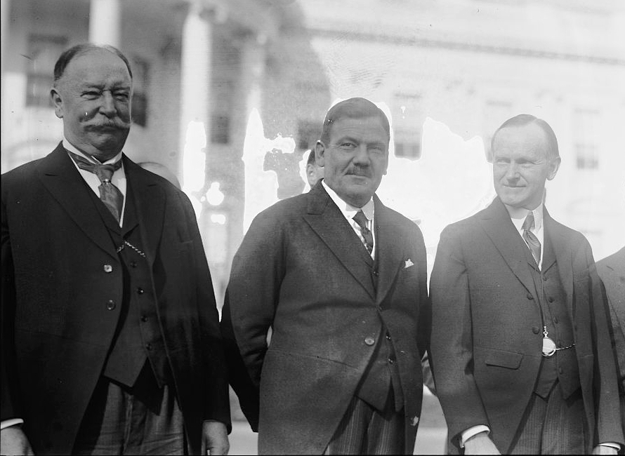 Supreme Court Justice William Howard Taft, Mexican President Gen. Calles, U.S. President Calvin Coolidge at White House, [10/31/24]